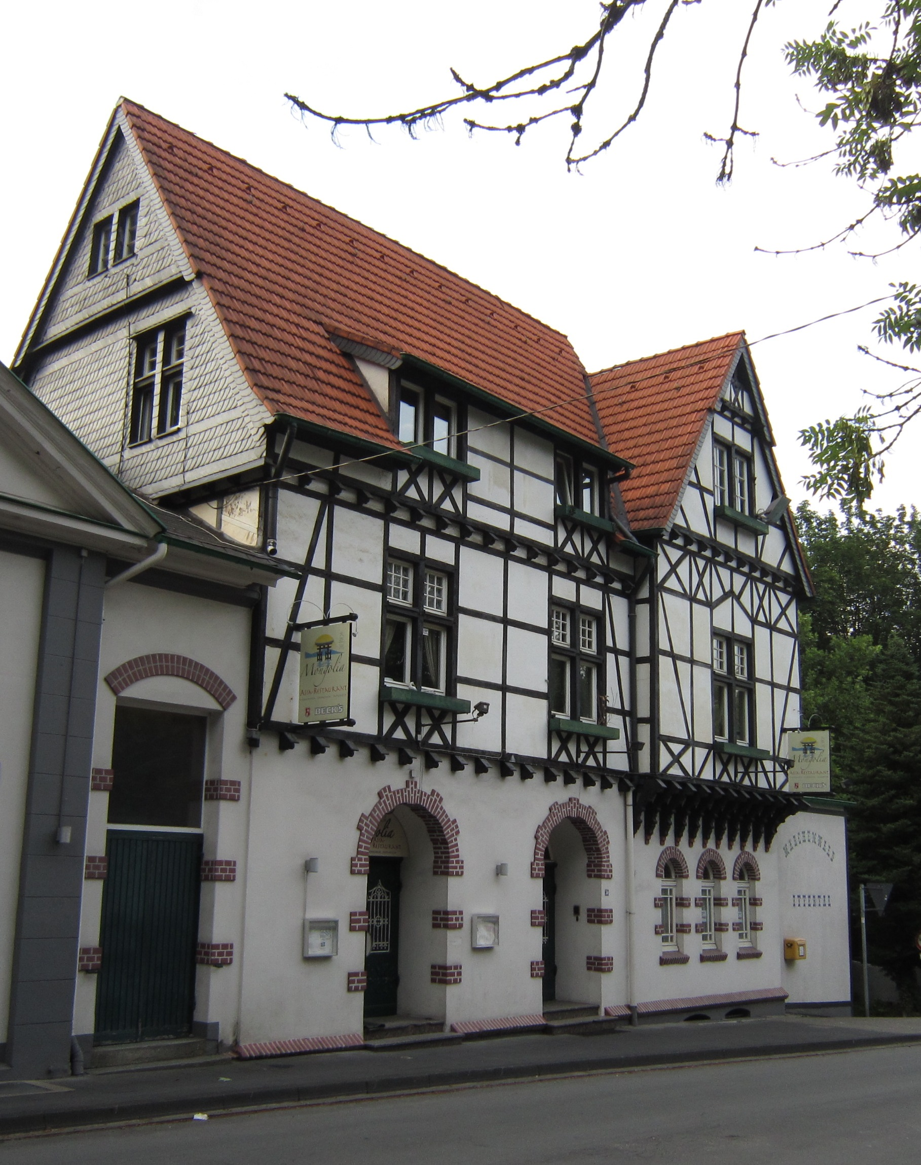 Freizeitpark Ittertal, Hauptgebäude, aufgenommen im Sommer 2015